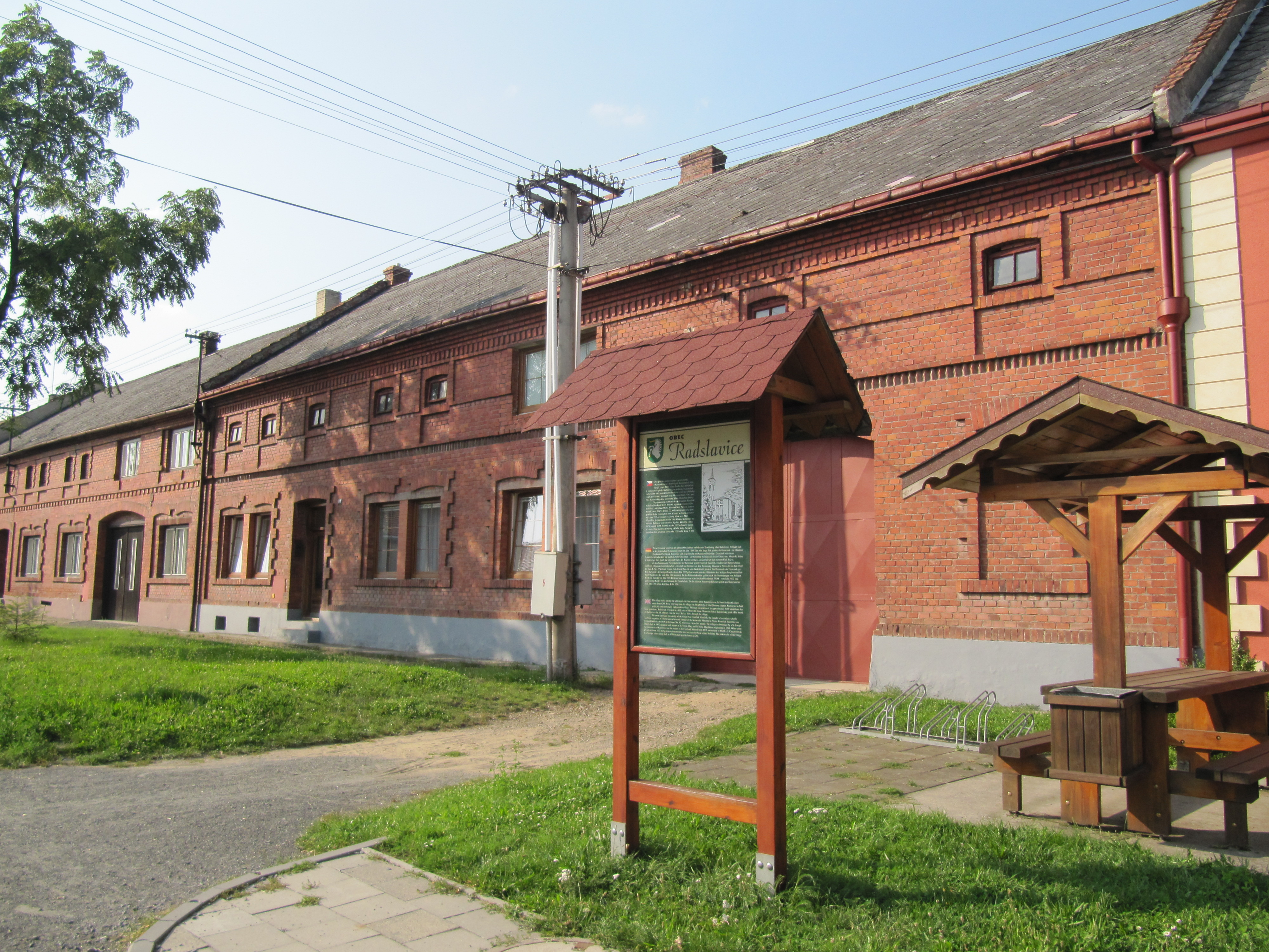 Radslavice in Přerov District, Czech Republic. Typical goods of Haná, information board in the foreground. This photograph was taken within the scope of the third year of the 'Czech Municipalities Photographs' grant.